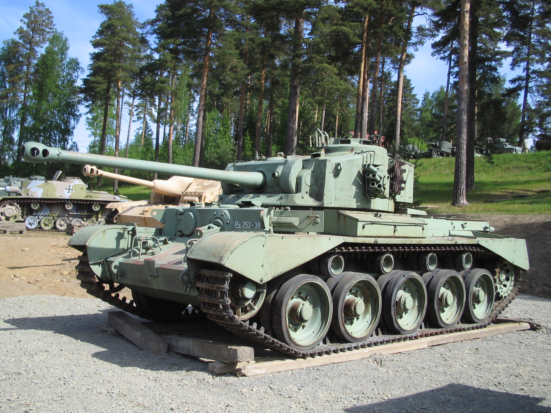 Comet MK I Model B in Parola Tank Museum